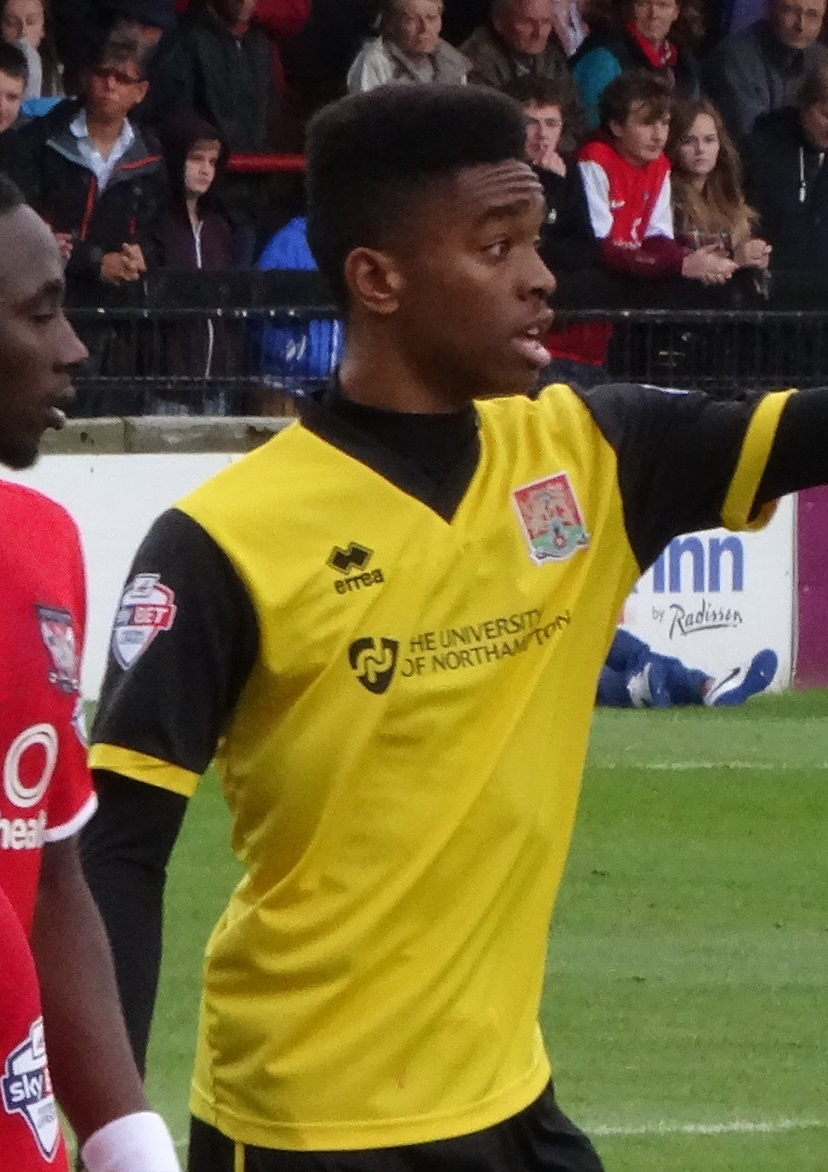 Ivan Toney playing for Northampton Town against York City at Bootham Crescent, York on 16 August 2014